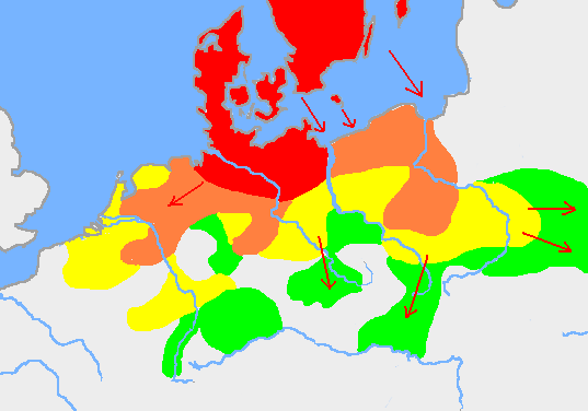 Based on p. 108 in the Penguin Atlas of World History, volume 1, from the Beginning to the Eve of the French Revolution. 1988. ISBN 0-14-051054-0. Note that the map assumes that the Nordwestblock was Germanized before 500 BC. This is uncertain; alternative proposals hold that the area near the mouths of the Rhine came under a Germanic superstate only in the 1st century BC. The map is drawn on User:Dbachmann's blank map: Image:Europe plain rivers.png